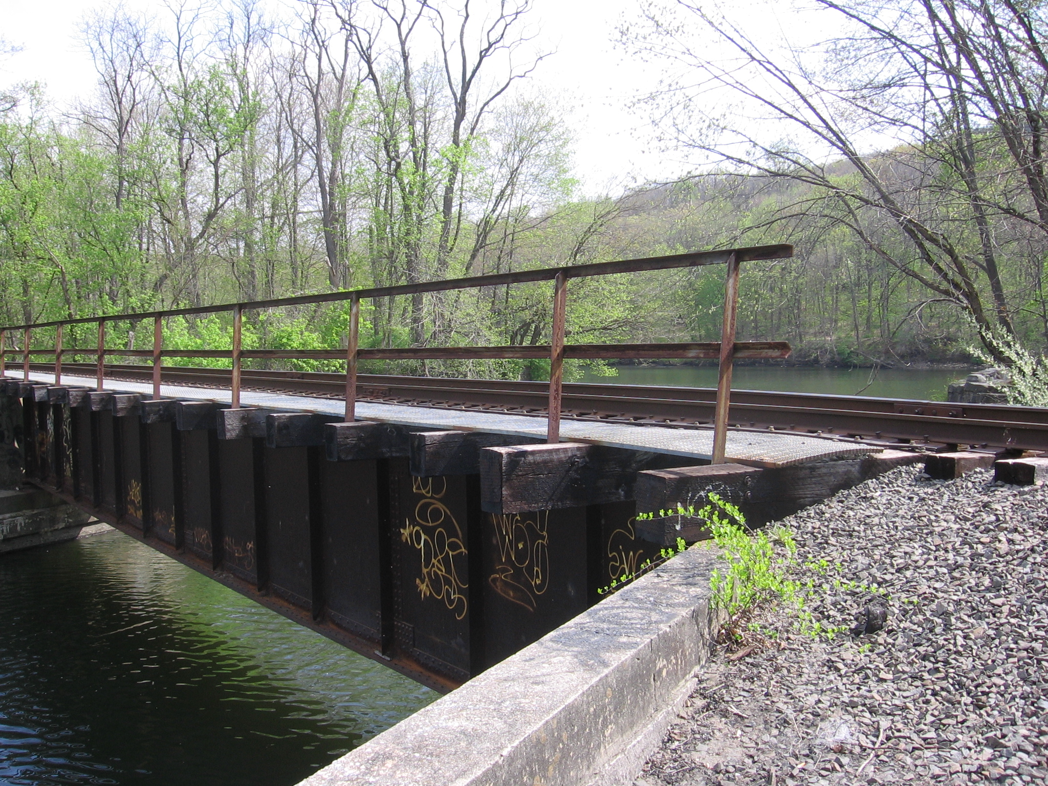 A bridge carries the Housatonic Railroad over the mouth of the Still River in New Milford, Connecticut near where it debauches into the Housatonic River.